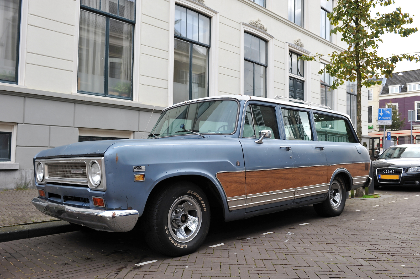 The Travelall was an early full-size truck-based wagon / SUV. It was similar in concept to the Chevy Suburban, and made by International Harvester from 1953 until 1975. Bron: Wikipedia